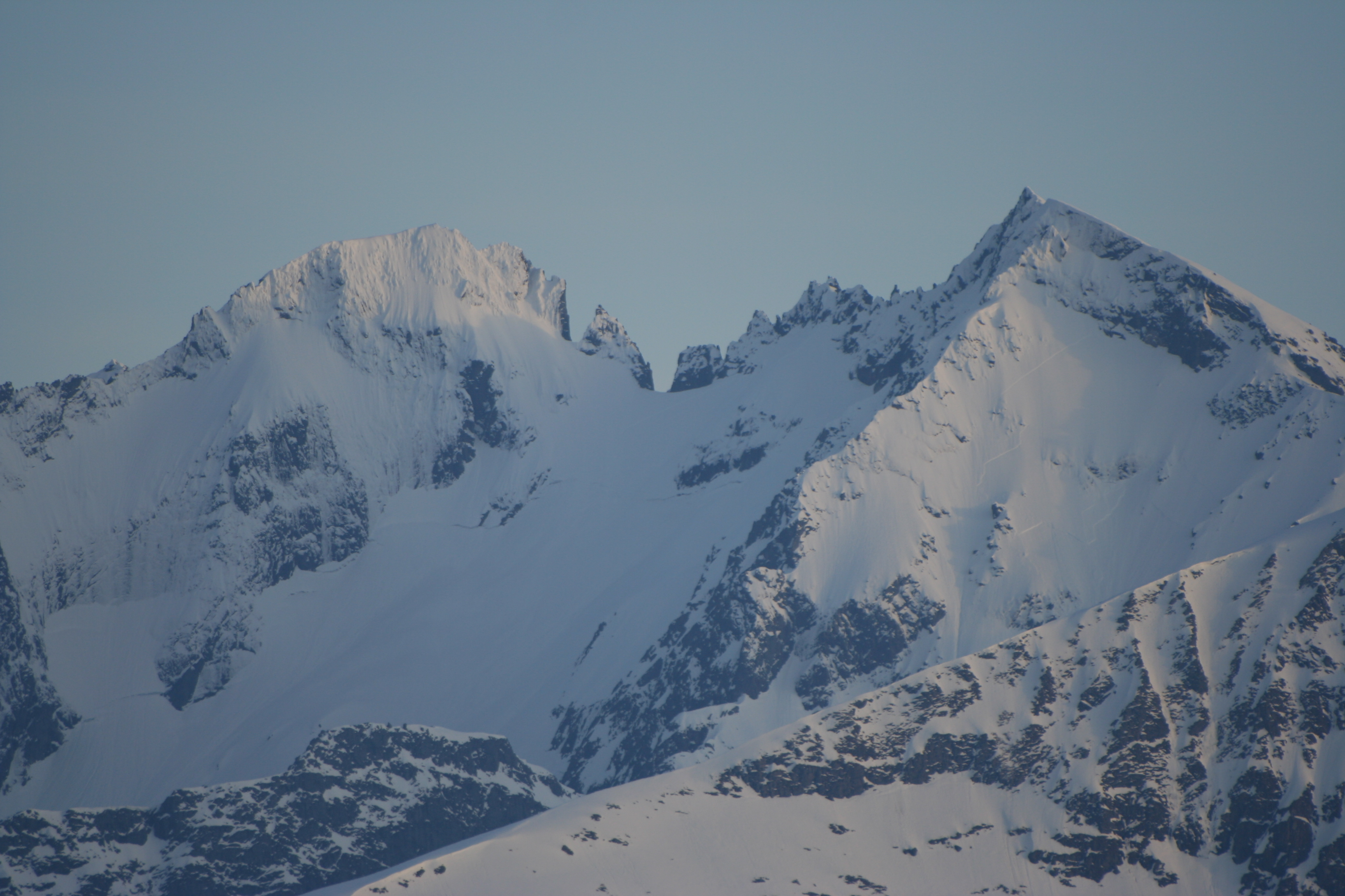 Mountain peak in Norway, Jønshornet/Ramoen (two names for the same summit, the right one) in SunnmørsalpeneMountain